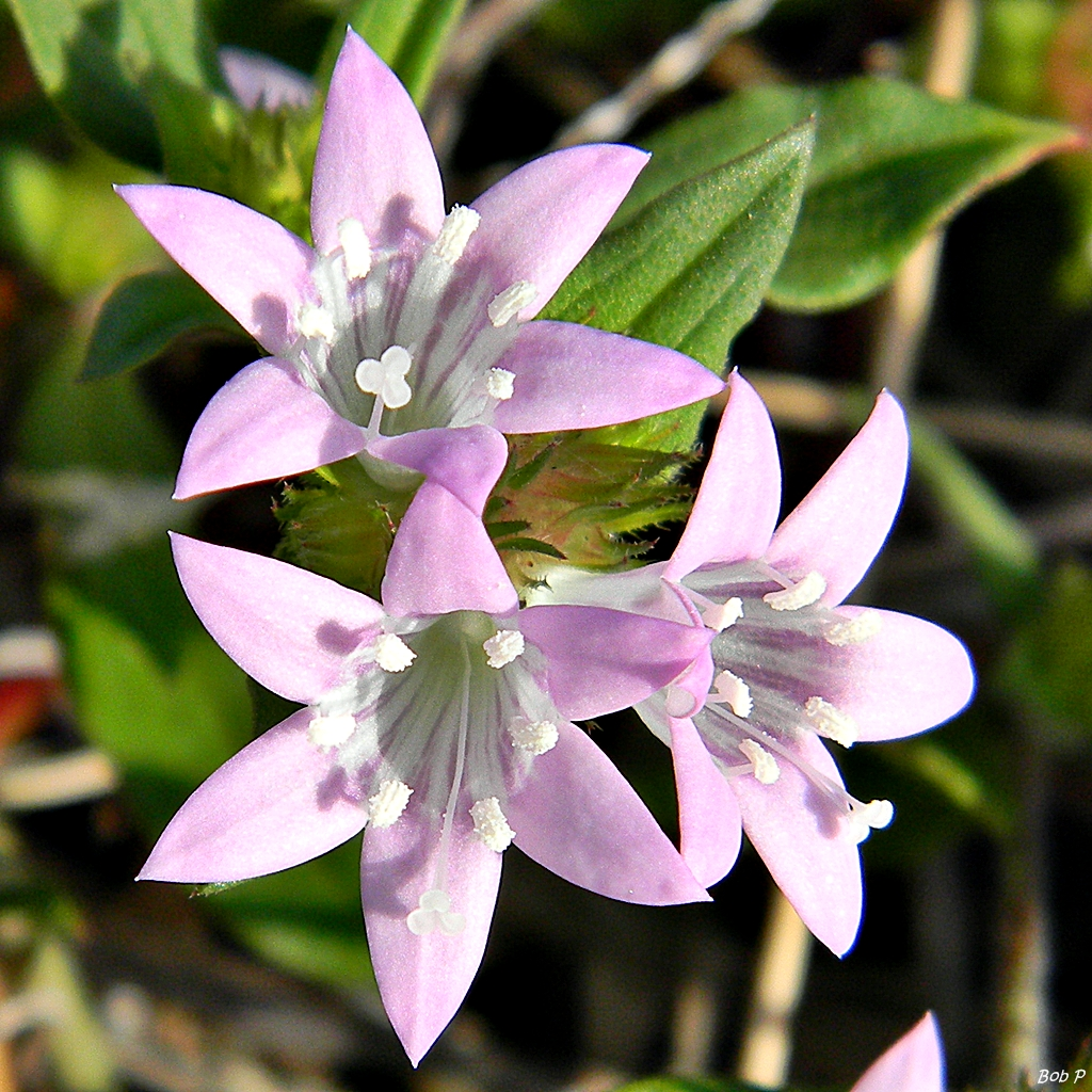 Largeflower Mexican clover is an exotic species that is here to stay in South Florida. However, unlike many invasives, this pretty little plant has several redeeming qualities. It grows happily on damaged, drought stricken ground...including hopelessly dead lawns of exotic grass. It blooms profusely. Many species of insects including honey bees, native bees and butterflies love it's nectar. Recently, I observed a gopher tortoise at Juno Dunes enthusiastically eating both the flowers and leaves of this plant. I hope officials take that into consideration before spraying these with herbicide in tortoise country! Here is a short video I made of the tortoise eating: (The growl was added....tortoises don't growl ;-)